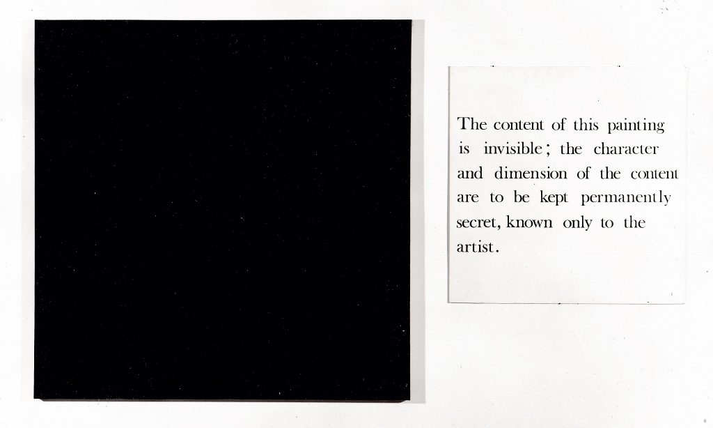 Secret Painting is a seminal art work of 1967 by the conceptual artist Art & Language (Mel Ramsden).